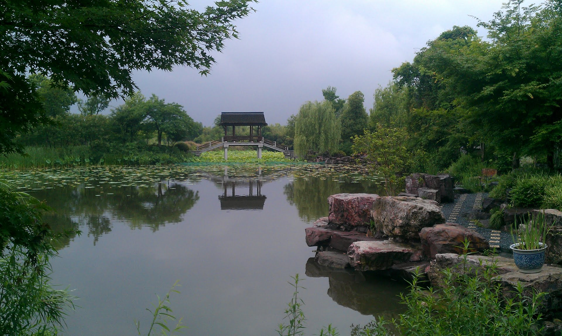 Gaozhuang of Xixi National Wetland Park